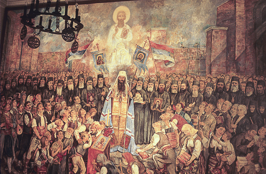 Sv Sava Academic painting depicting where the Temple was supposed to take recommence